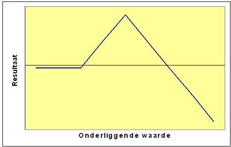 call ratio, option strategy, finance